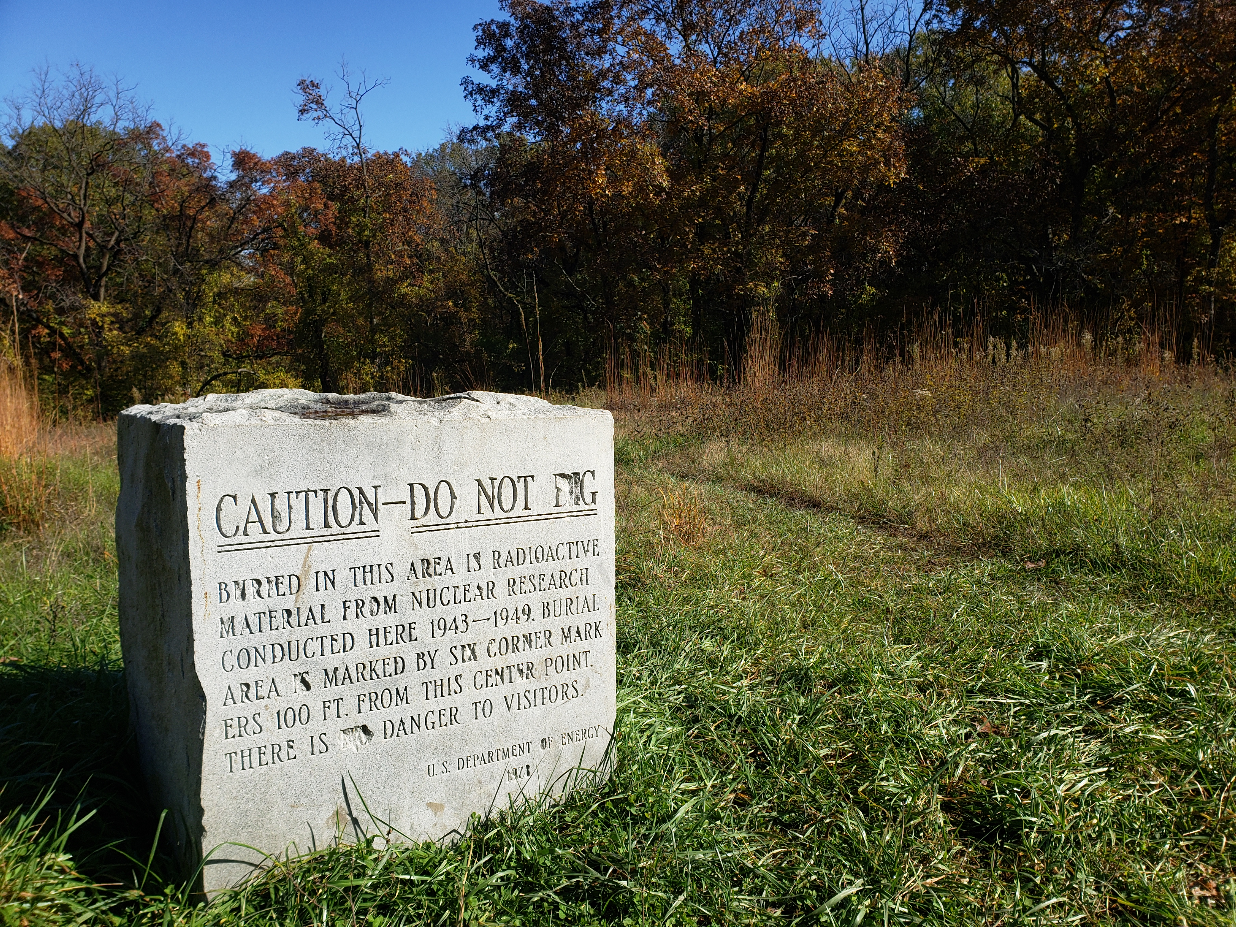 Site A/Plot M Disposal Site Plot M marker on October 27, 2019.